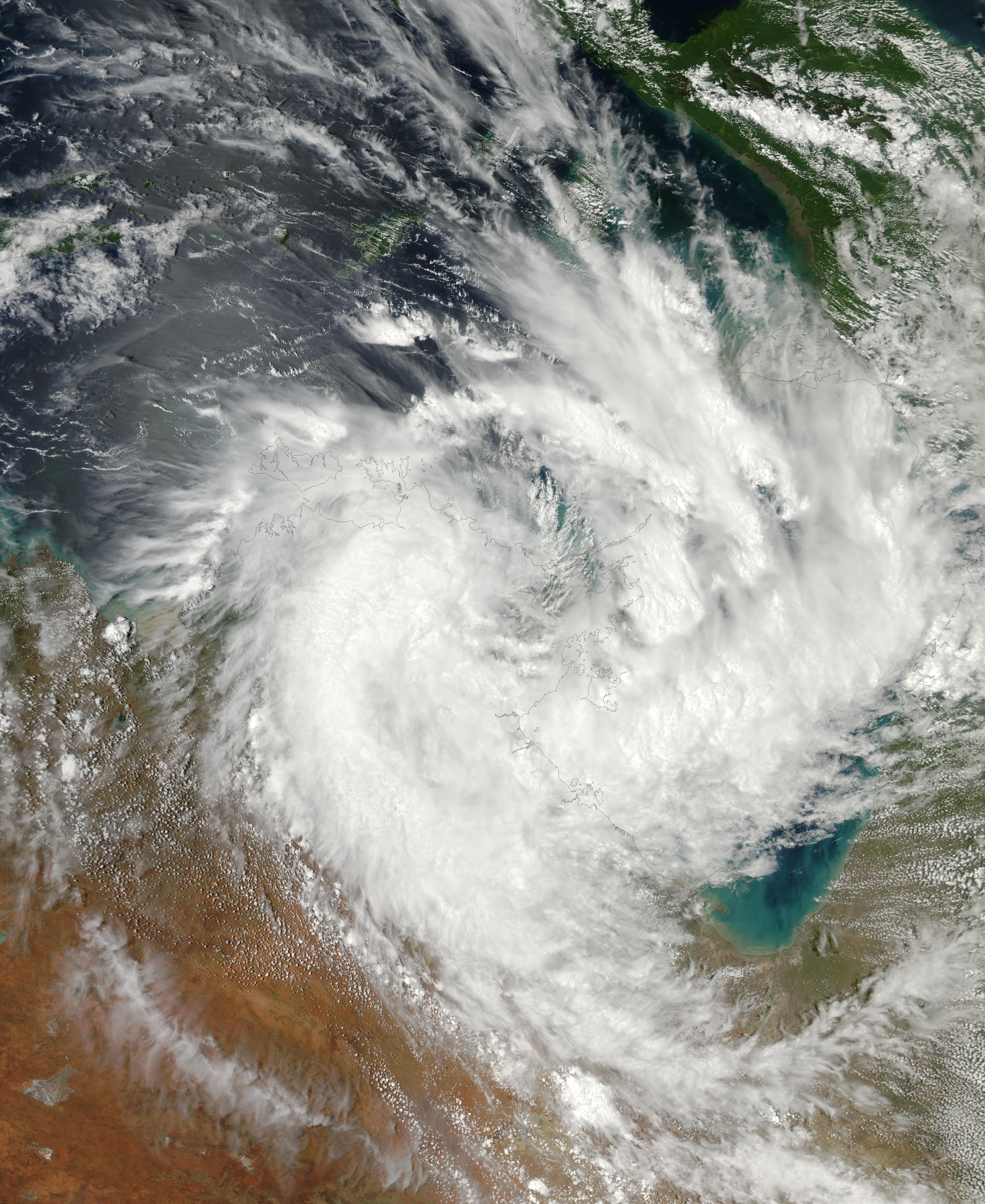 On January 6, 2003, a low-pressure storm system hovered over the Gulf of Carpentaria and northern Australia, bringing much needed rain to the drought stricken continent. This image of the storm was captured by the Moderate Resolution Imaging Spectroradiometer (MODIS) instrument, flying aboard NASA's Terra satellite.